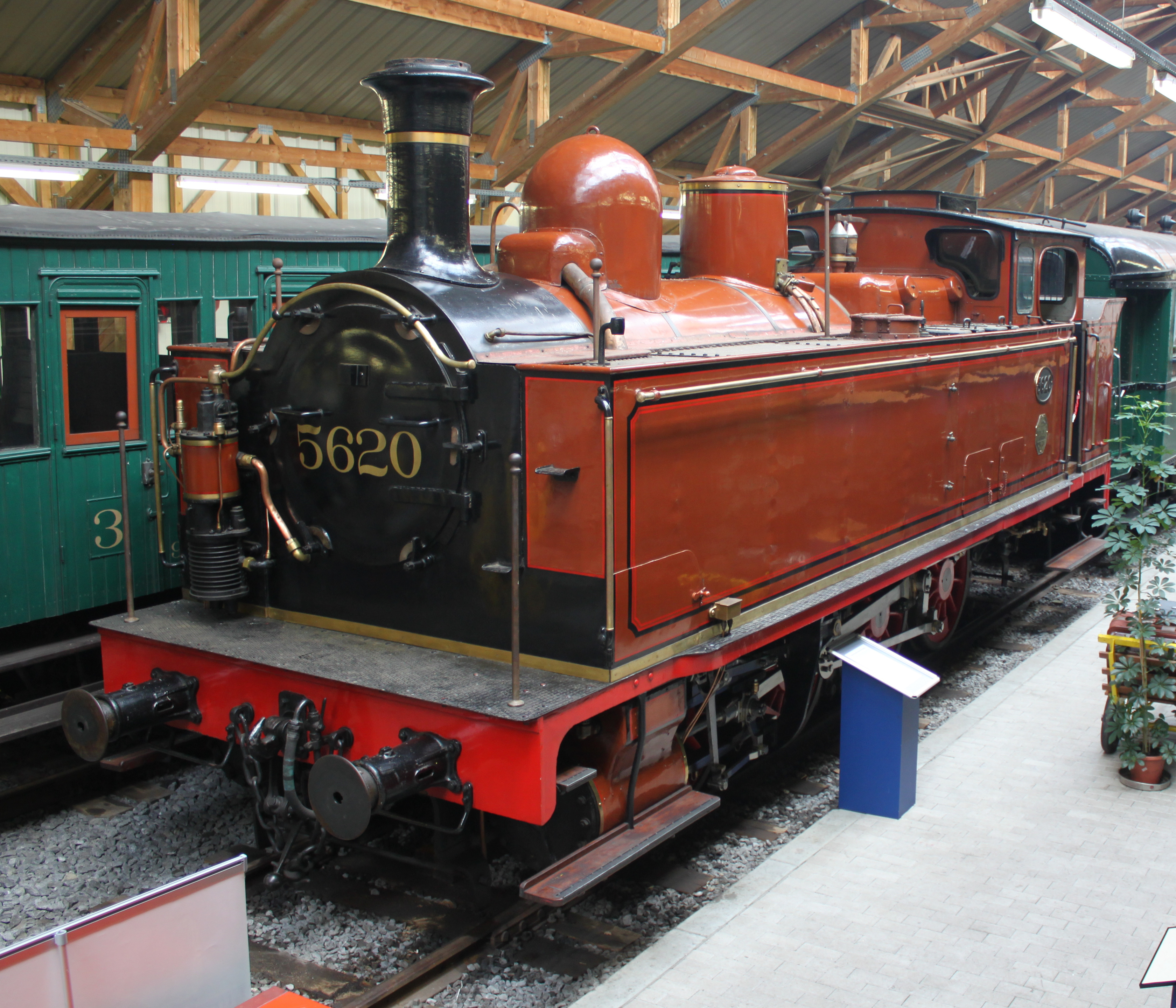 A type 53 steam loc from Belgian railwxay company SNCB-NMBS, as displayed at CFV3V museum in Treignes, Belgium. This largely widespread shunter was operated in most belgian stations with a shuting capability in the last decades of steam traction in Belgium. This particular engine is the only one preservred from this type.